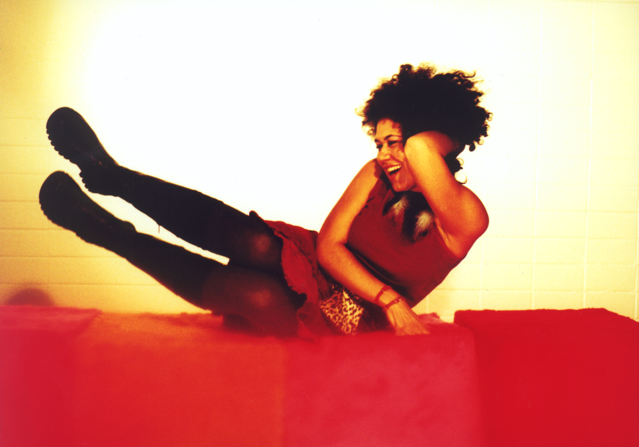 T.I.V. Cassie - Cassie Britton (press pic 1999), photography by katsey +++++ ++++